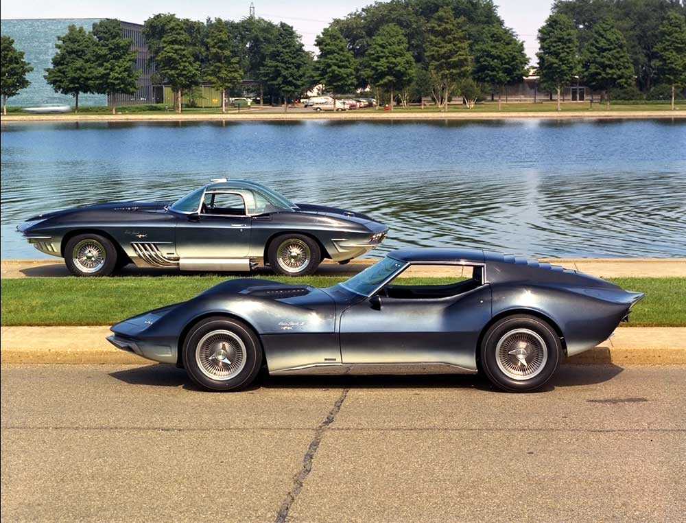 At the GM Tech Center.